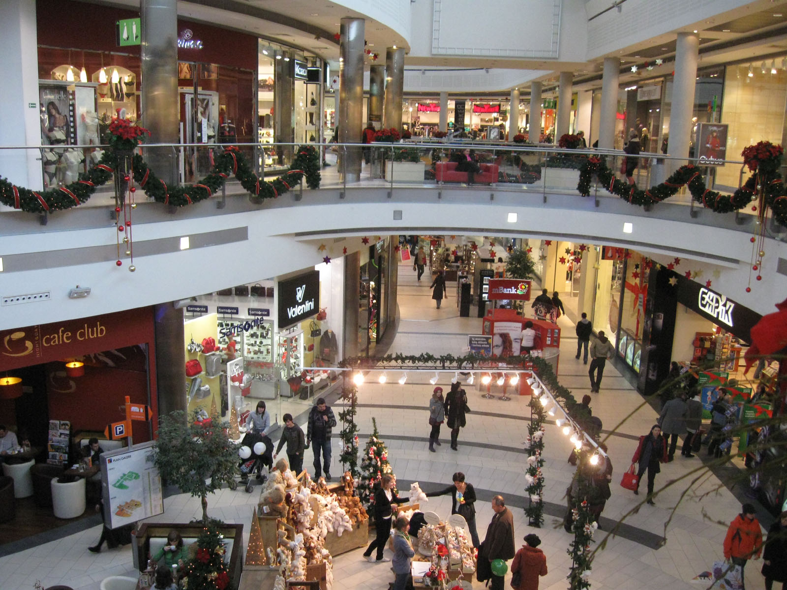 Galeria Kazimierz in Kraków, Poland